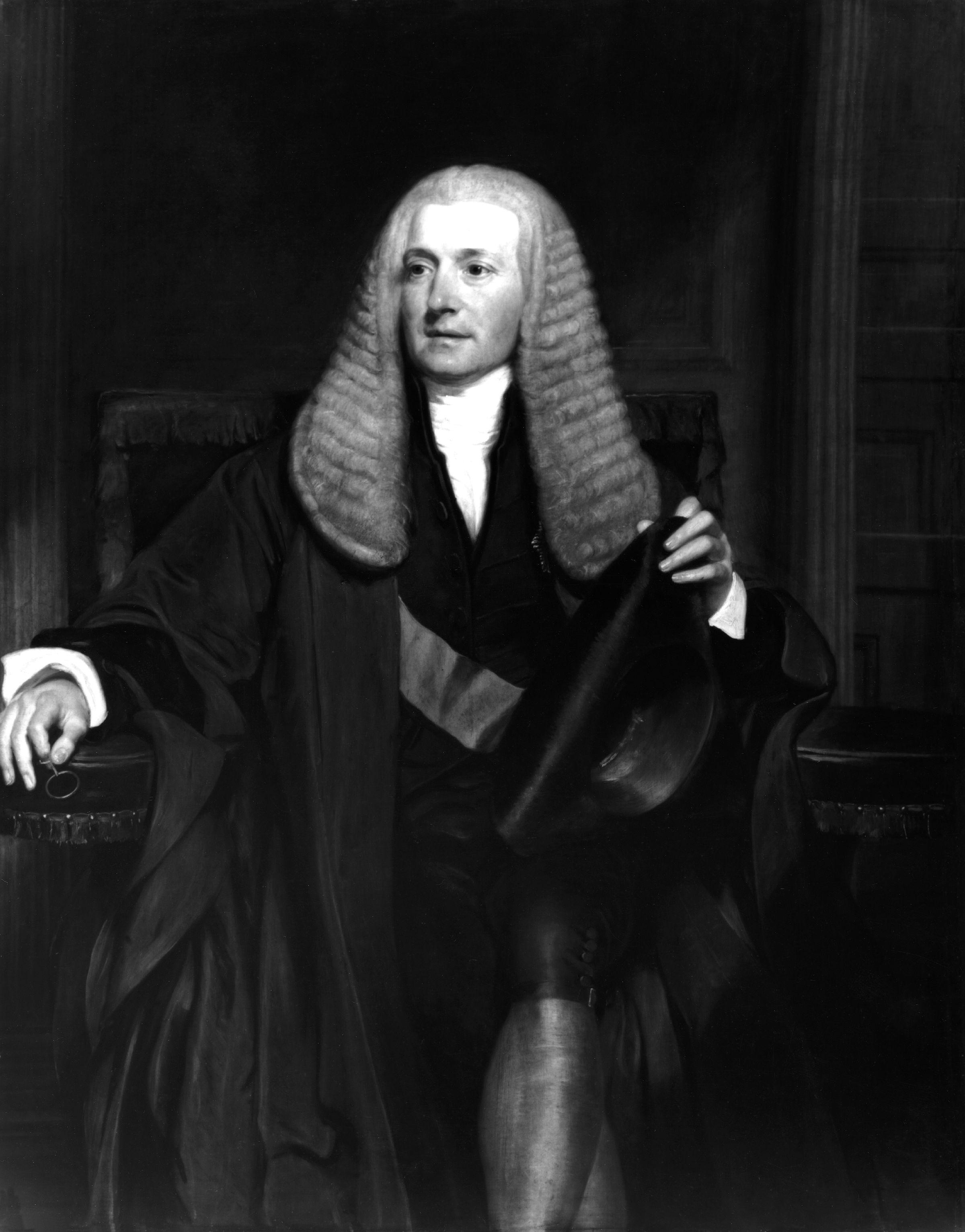 Charles Manners Sutton, 1st Viscount Canterbury, by Henry William Pickersgill (died 1875), given to the National Portrait Gallery, London in 1923. All images in this batch have been confirmed as author died before 1939 according to the official death date listed by the NPG.